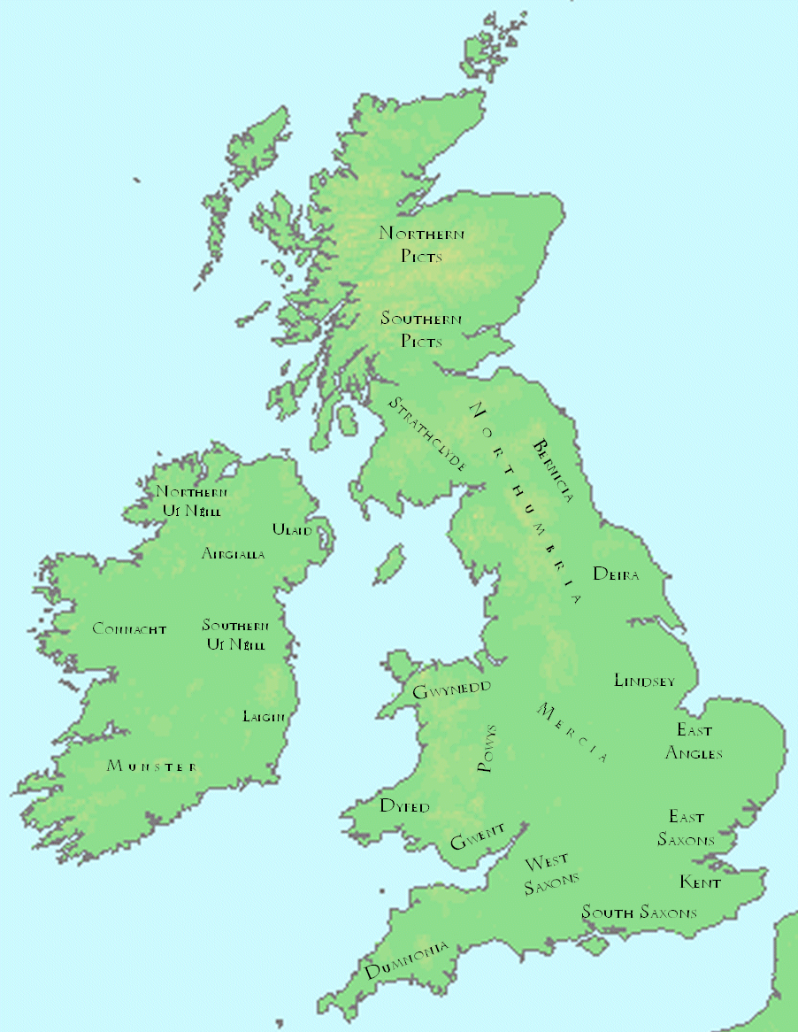 This is a map showing the locations of the kingdoms of the British Isles in the late seventh century. The file was created using DMIS. On that site it is stated that "We do not claim copyright on the images, so you can use them for Wikipedia." This map is based (for Great Britain) on a map found in Peter Hunter Blair's "Roman Britain and Early England: 55 B.C.-871 A.D.", W.W. Norton, 1963, p. 209; and (for Ireland) on a map in Duffy's Atlas of Irish History.